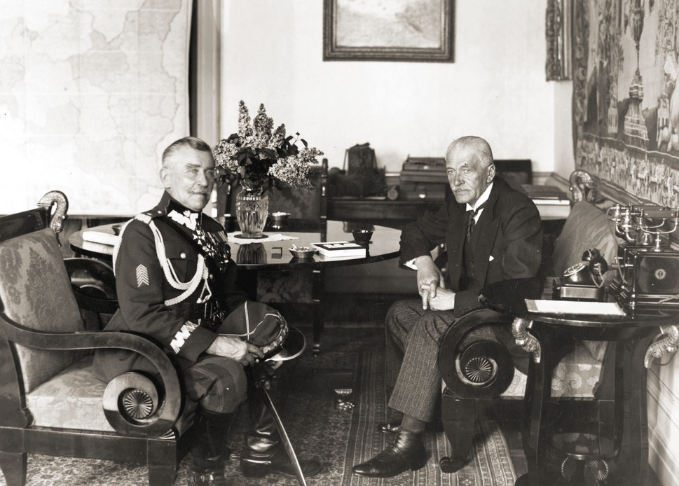 Gen Mariusz Zaruski and Ignacy Mościcki. Official meeting.